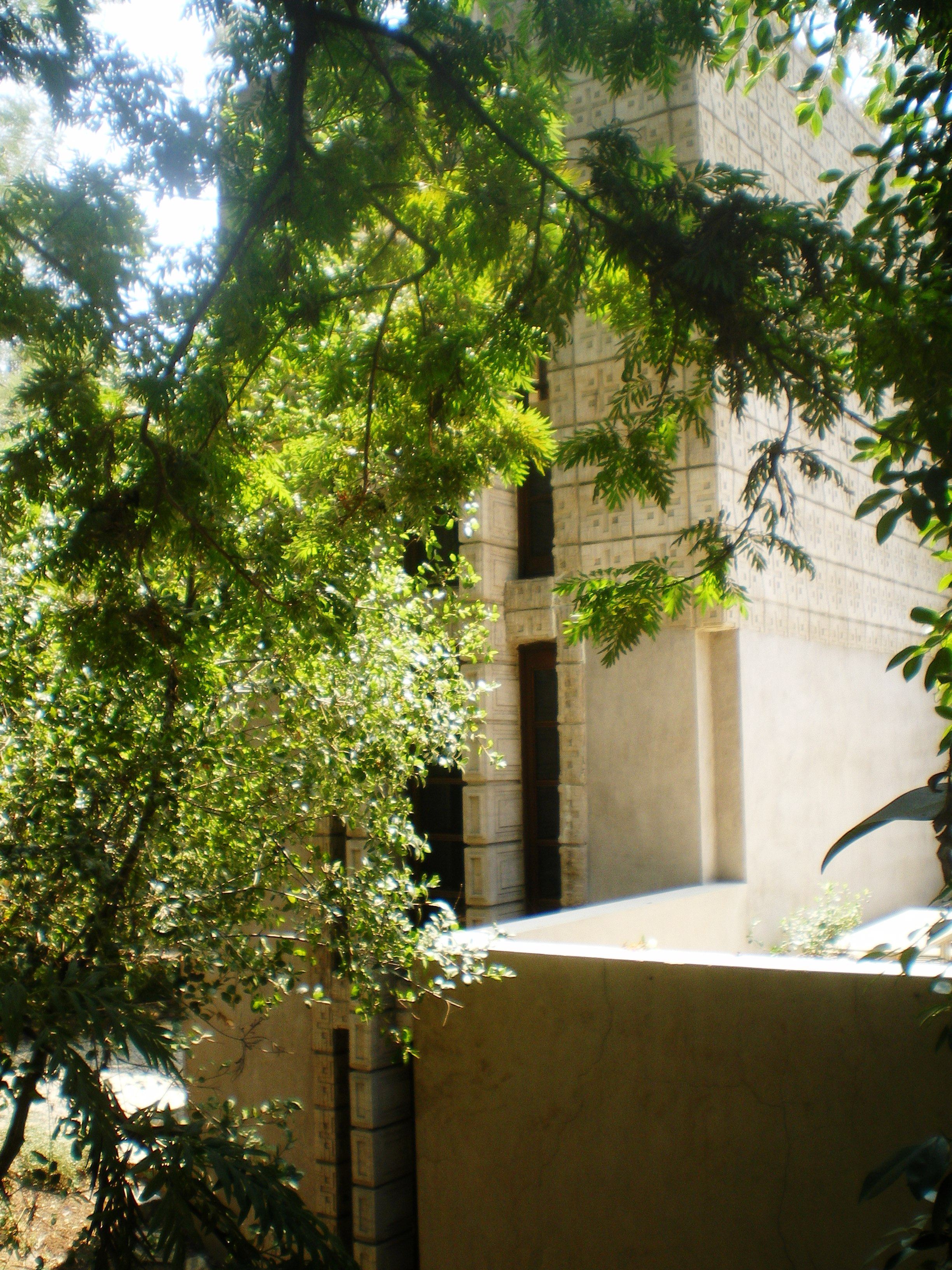 Millard House - La Miniatura, Pasadena, California